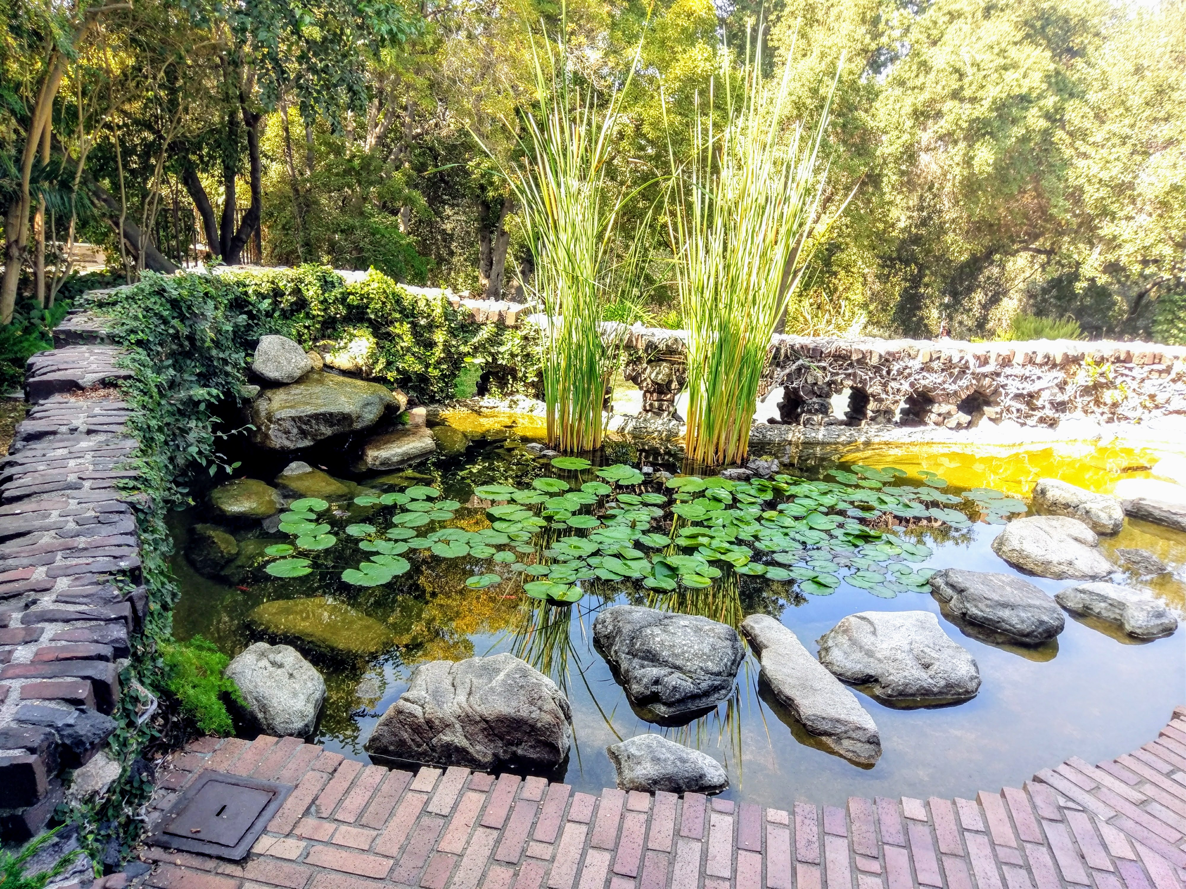 A garden pond in the back yard of the Gamble House in Pasadena, California. Photo by Jim Heaphy.